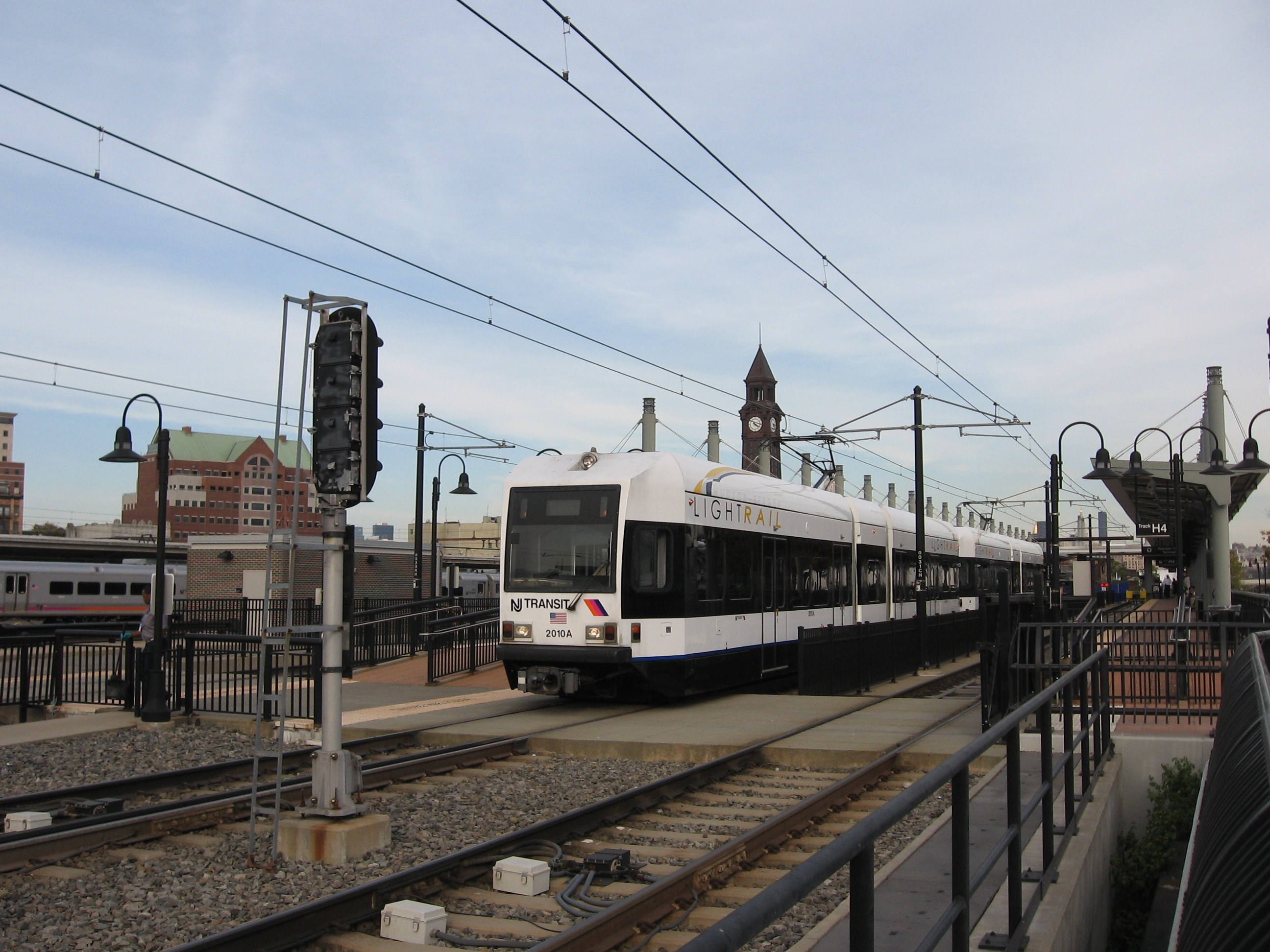 A train of the Hudson-Bergen Light Rail leaving Hoboken Terminal